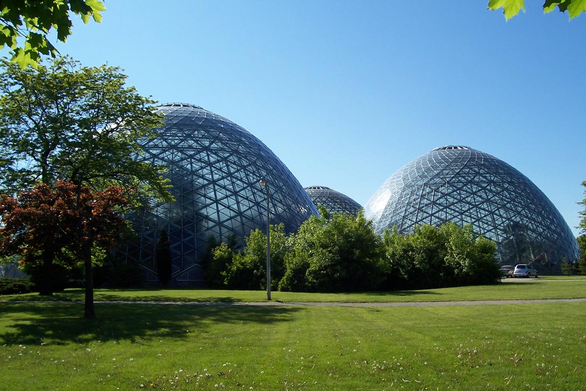 Mitchell_Park_Horticultural_Conservatory, Wisconsin, Three beehive-shaped glass domes, each with a distinct climate and setting, make up the Mitchell Park Horticultural Conservatory in Milwaukee, Wisconsin.